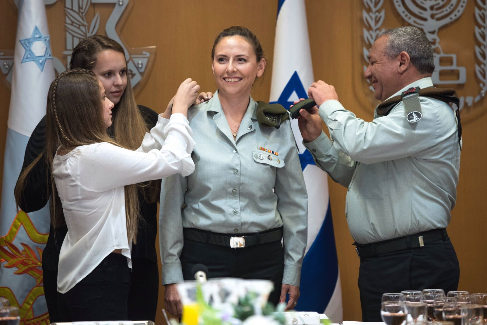 From her ranking ceremony